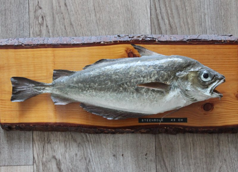 A large pouting